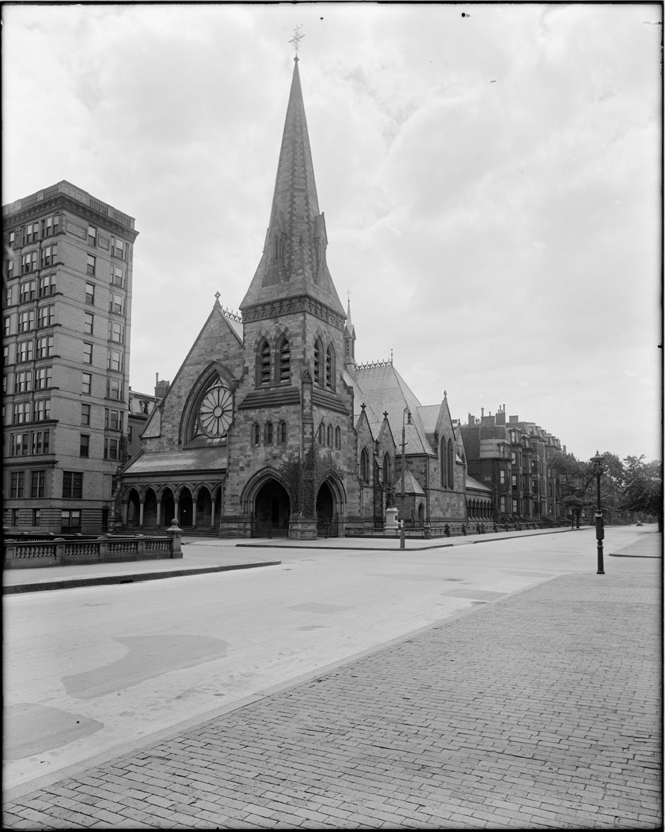 Accession No.: 08_01_000317 Title: First Church in Boston at Berkeley Street and Marlboro Street Format: photograph Source: 8x10 glass negative Date: July 4, 1920 Photographer: Abdalian, Leon H. |Source= First Church in Boston at Berkeley Street and Marlboro Street |Date=2008-06-05 14:22 |Author=BPL